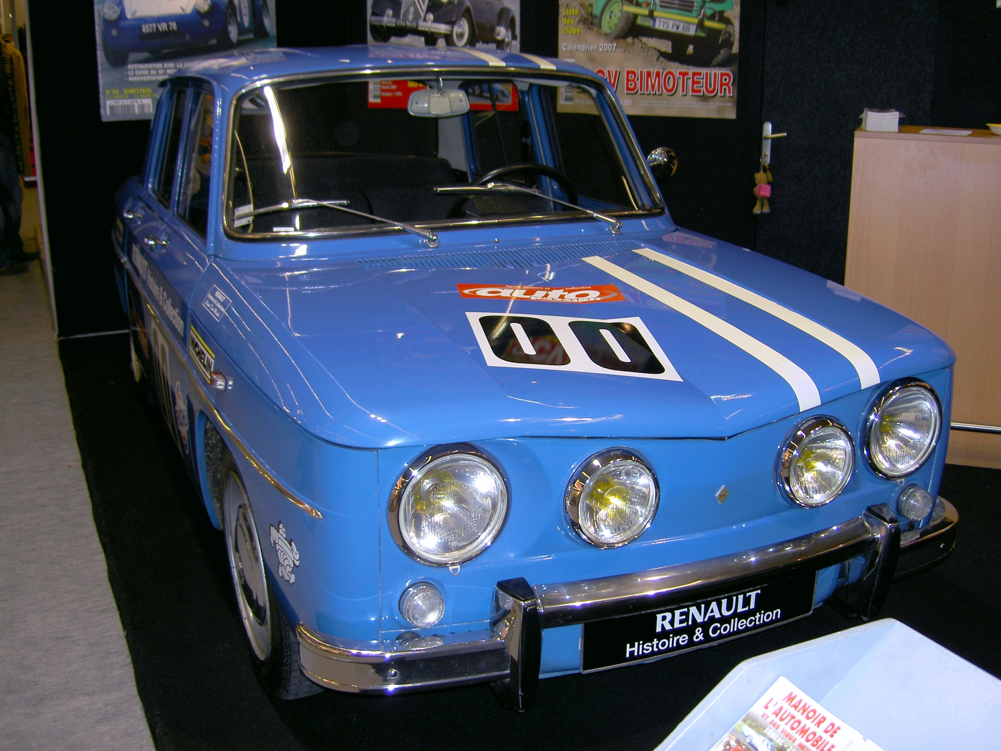 R8 Gordini (French race car)